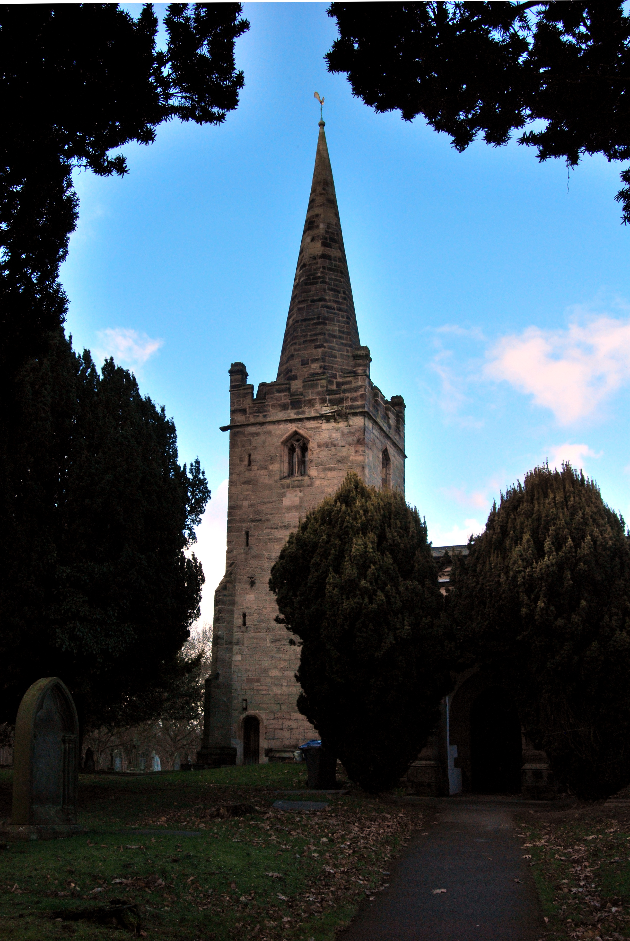 St Edmonds Holme Pierrepont Nottingham